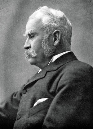 Photo of Sir William Schwenck Gilbert.